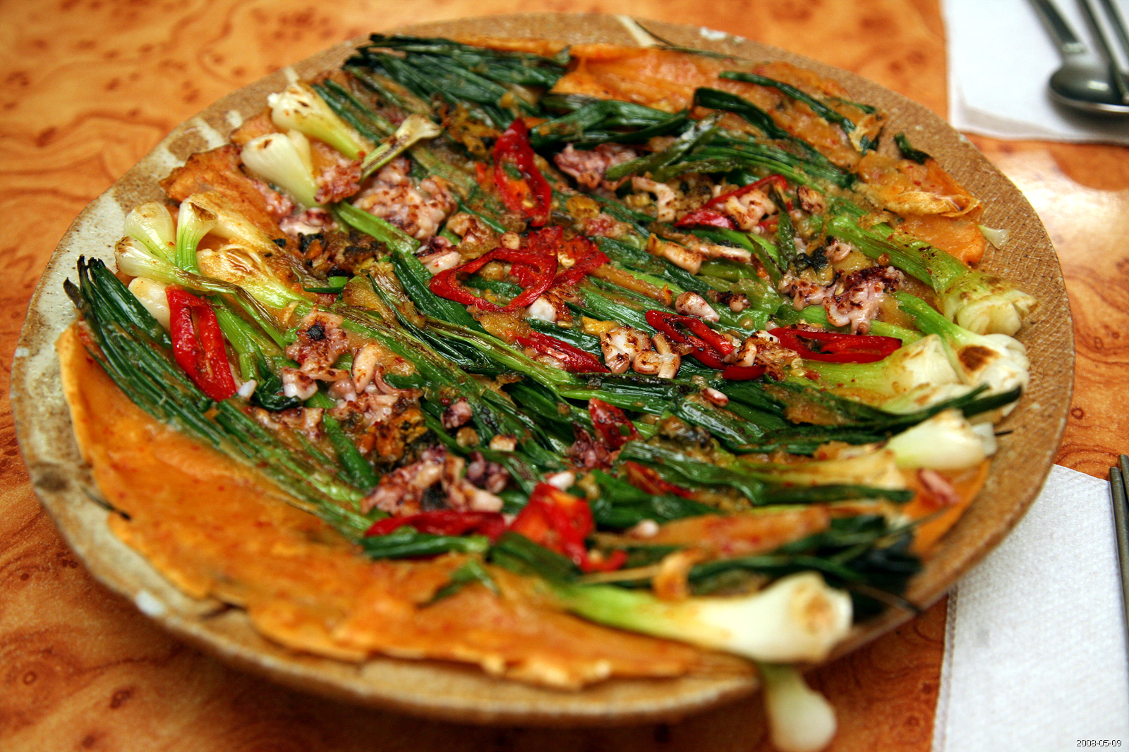 A plate of Dongnae pajeon, a Busan-style pancake made with whole scallions, sliced chili pepper, chopped seafood and wheat flour batter, served at a restaurant in [Gyeongju], North Gyeongsang province, South Korea It is usually eaten as an appetizer or snack in Korean cuisine